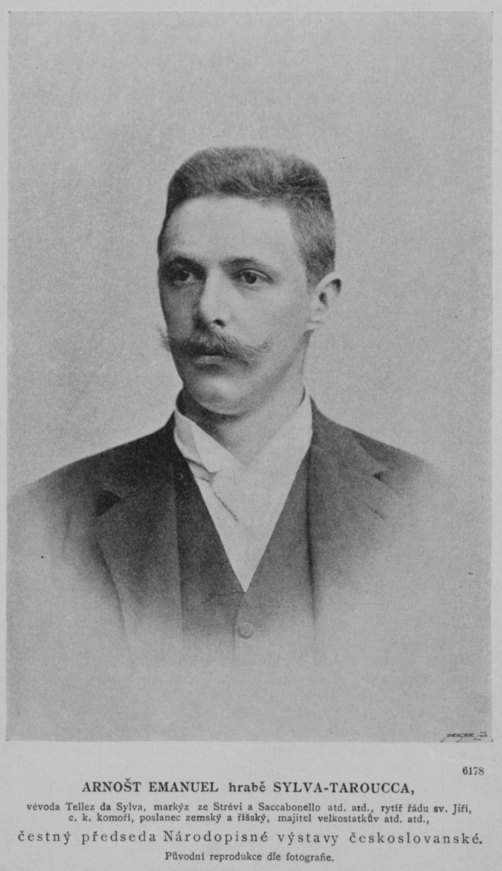 Portrait of Ernst Emanuel von Silva-Tarouca (1860-1936), Austrian nobleman, politician and dendrologist. Shown as a honorary chairman of Czech and Slovak Ethnographic Exhibition in Prague 1895.